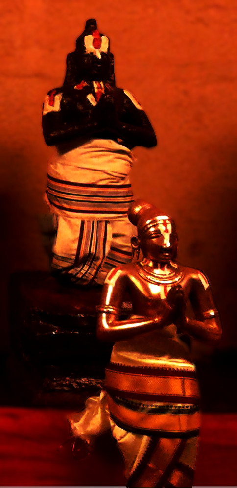 Thirumangai Azhwar